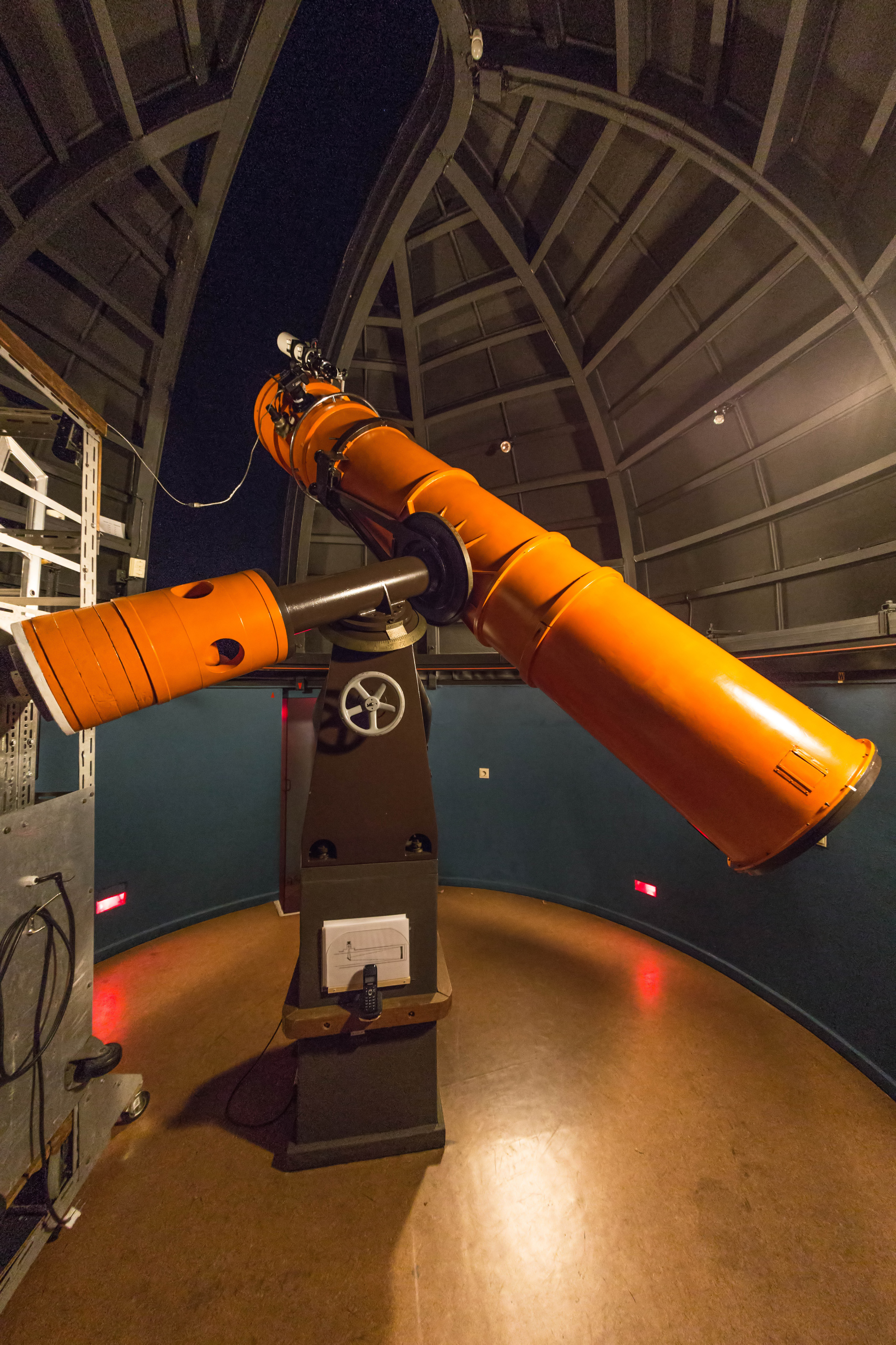 The telescope at the Dr. A.F. Philips Observatorium in Eindhoven